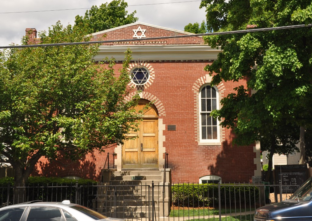 A photograph of the historic Agudas Achim Anshei Sfard Synagogue in Newton, Massachusetts.